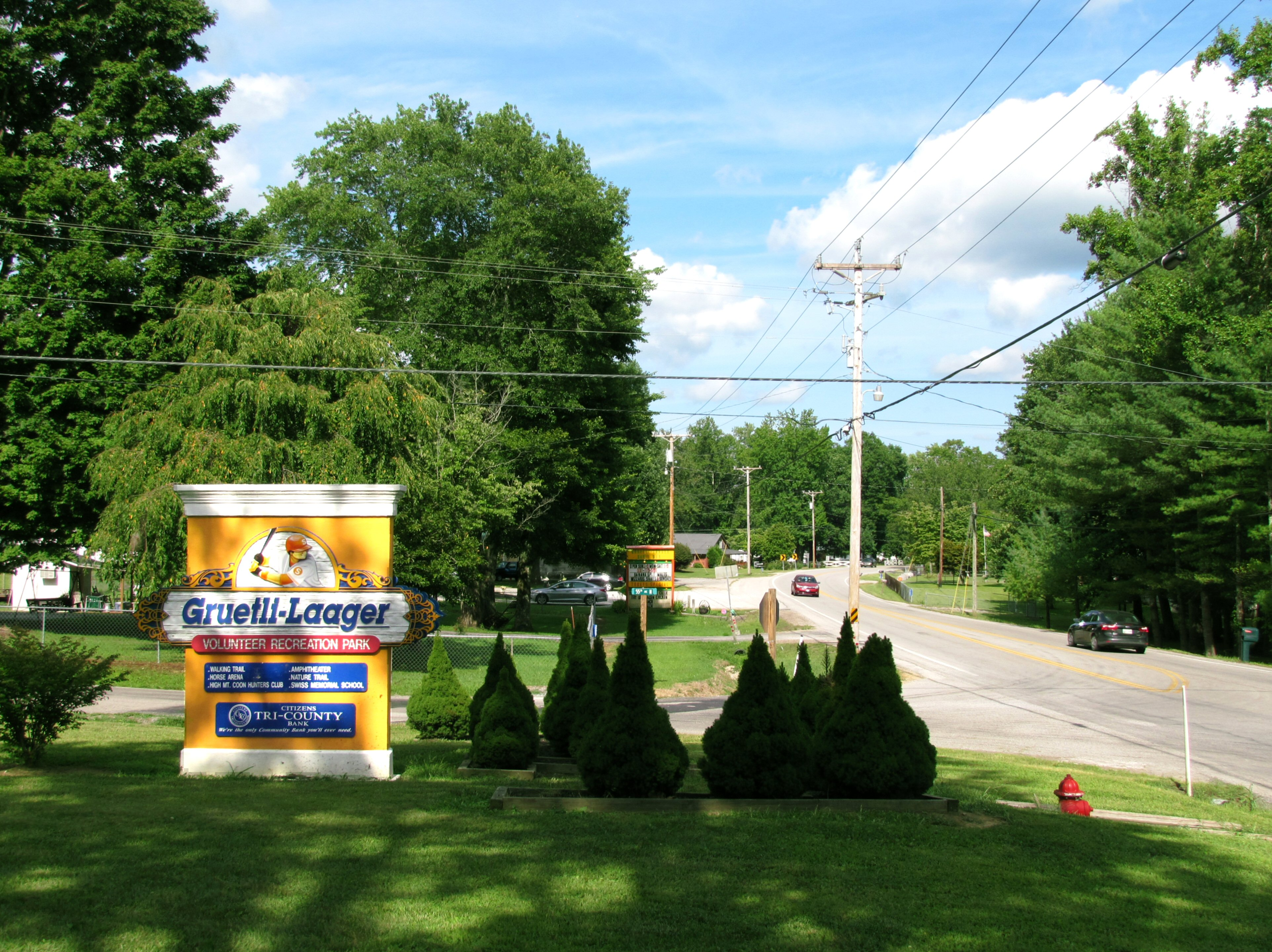 Tennessee State Route 108 in Gruetli-Laager, Tennessee, United States.